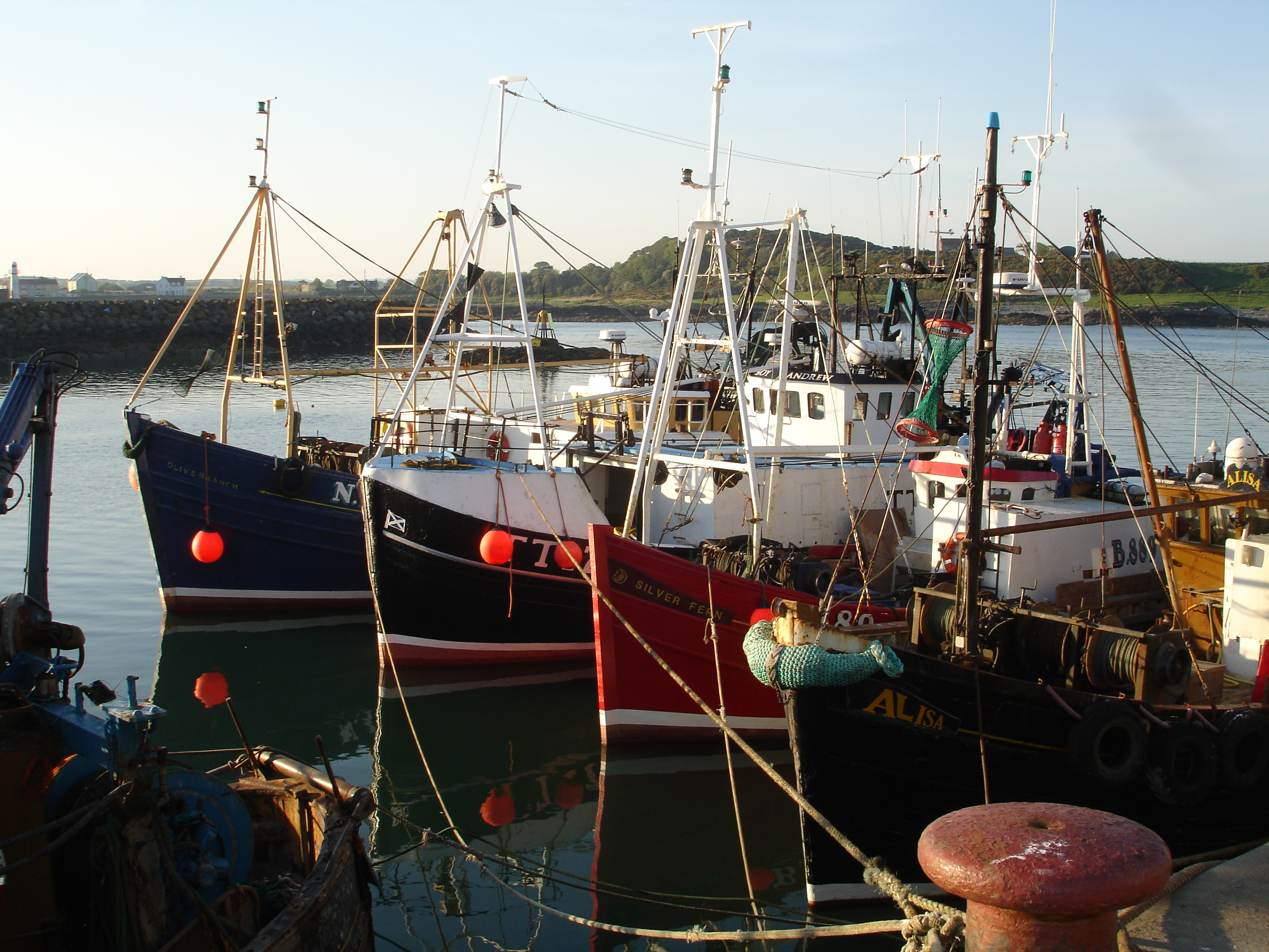 Fishing Boats in Ardglass, County Down, May 2009